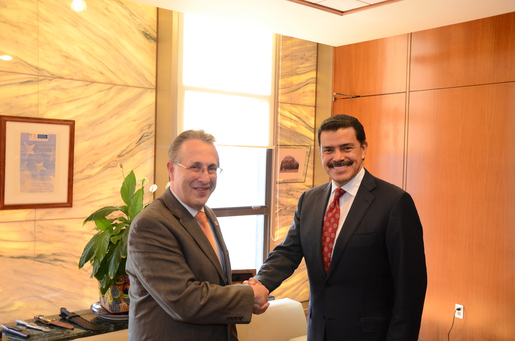 U.S. Ambassador to Mexico Earl Anthony Wayne and Hidalgo Governor Francisco Olvera Ruiz